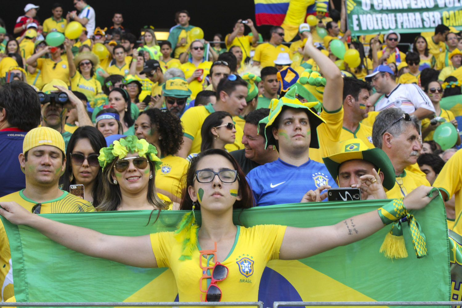 Brazil and Colombia match at the FIFA World Cup 2014-07-04